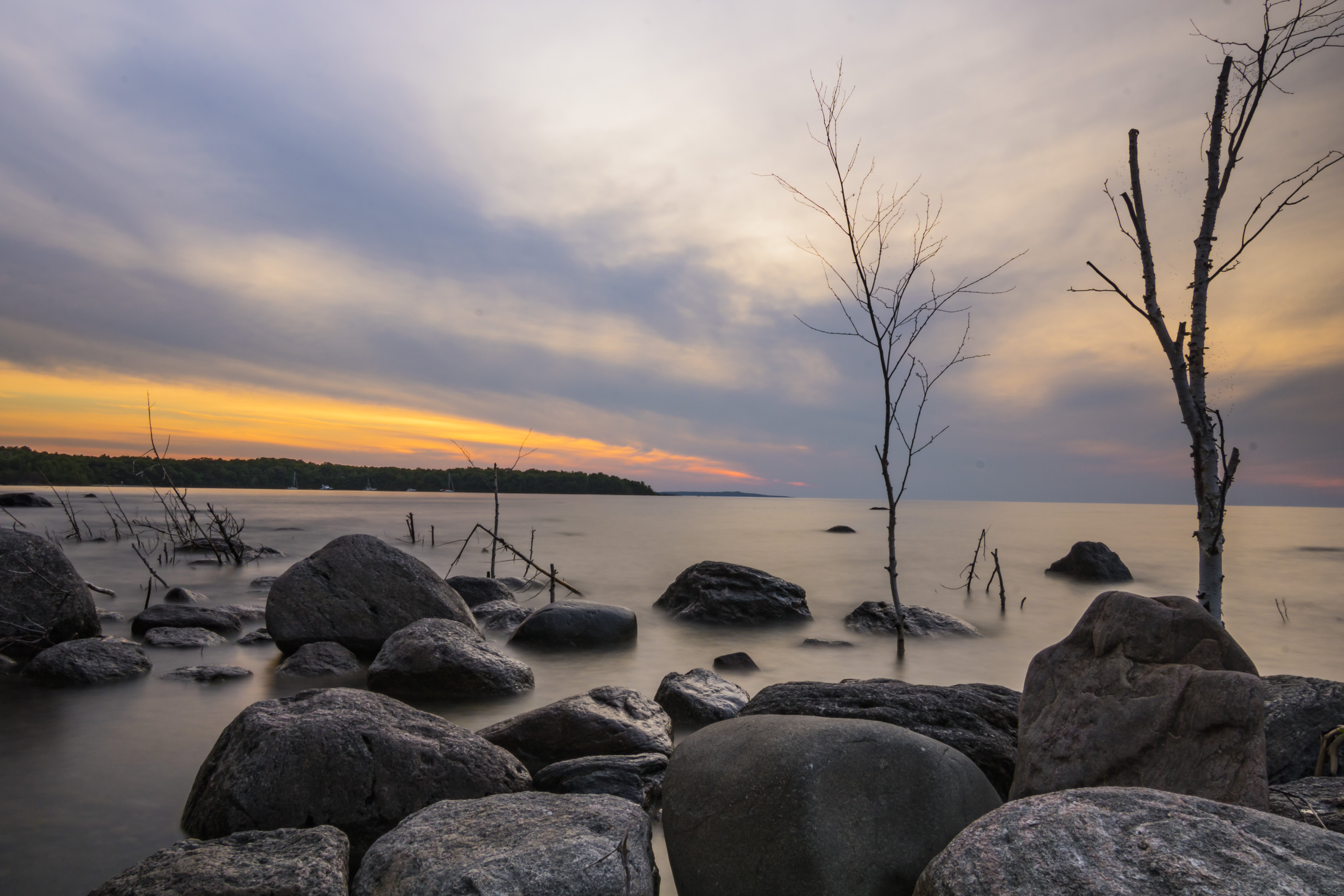 A sunset is a proof of beautiful endings. This photo was taken in a protected area in Canada, Wikidata item Awenda Provincial Park (Q4830012)